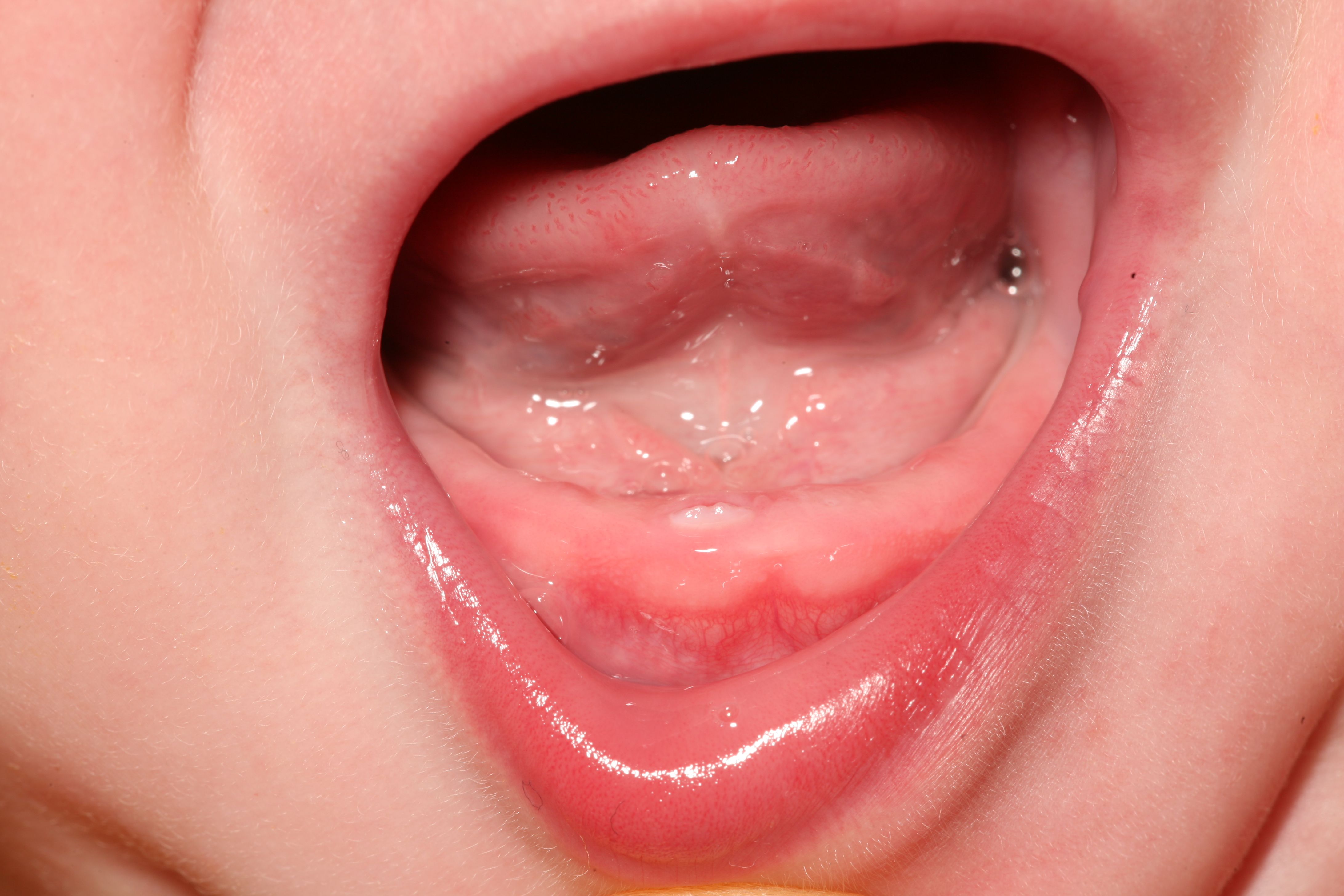 Teething baby: lower right incisor broken through.